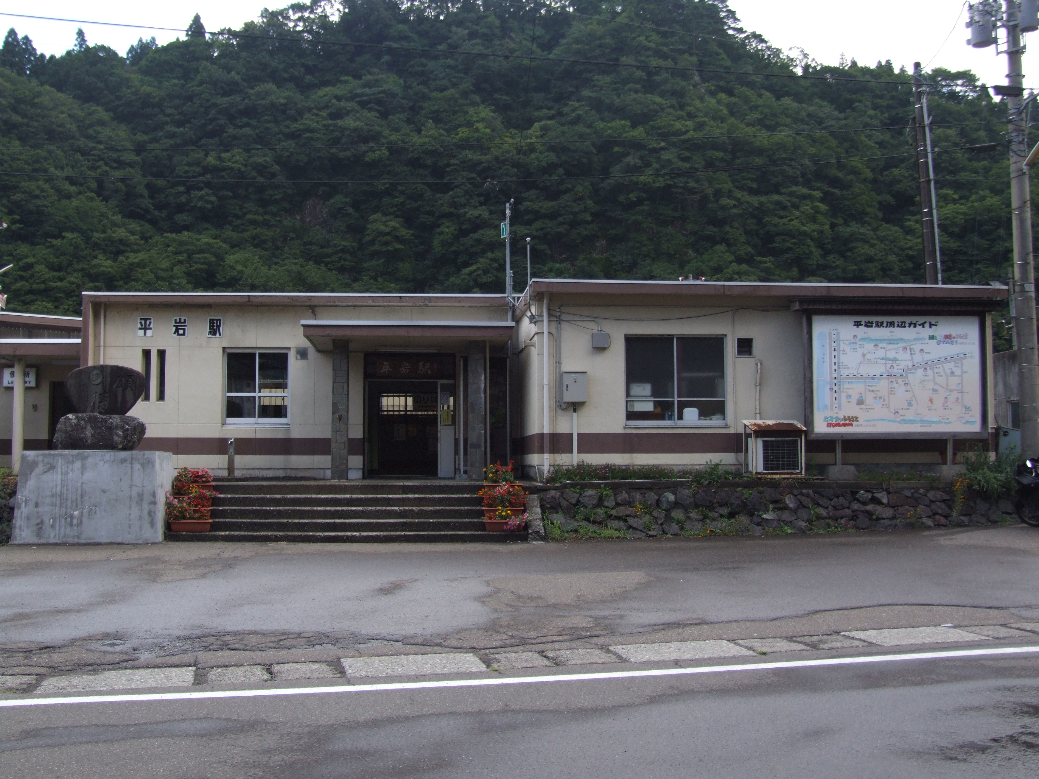 Hiraiwa Station in Itoigawa, Niigata, Japan